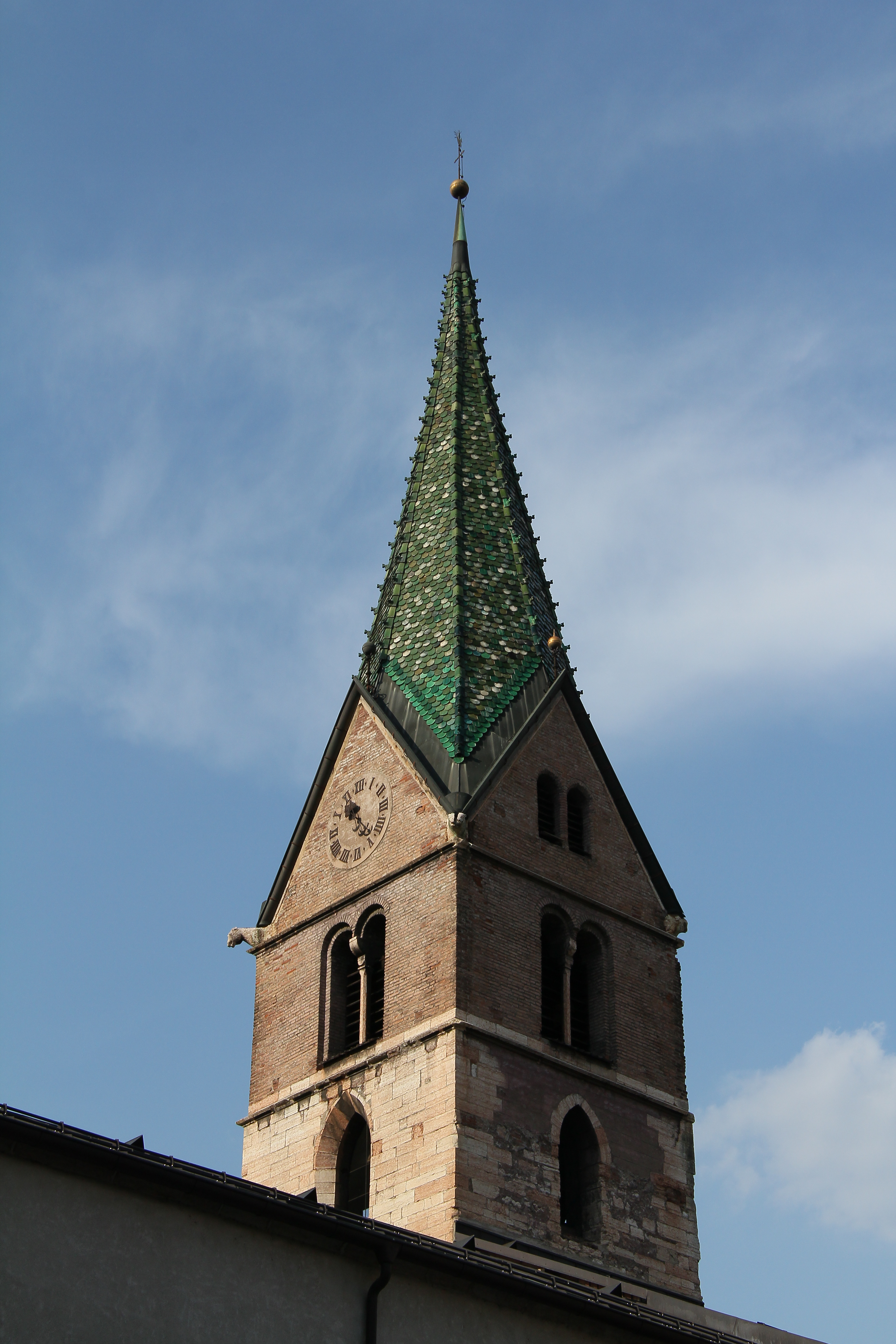 Trento (Italy): the church tower of San Pietro from south-west.